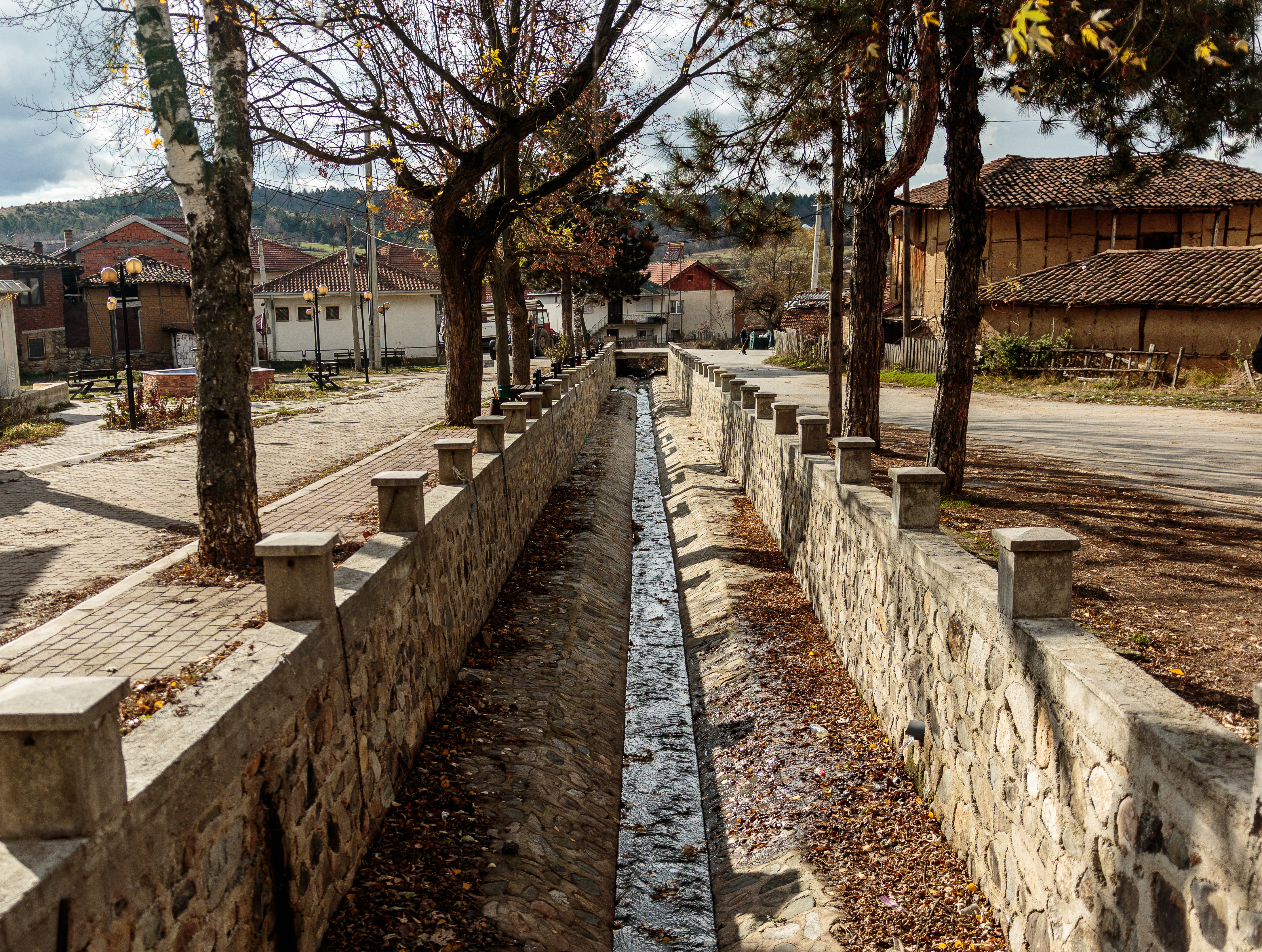 Canal in the village of Budinarci, Maleševija, Macedonia